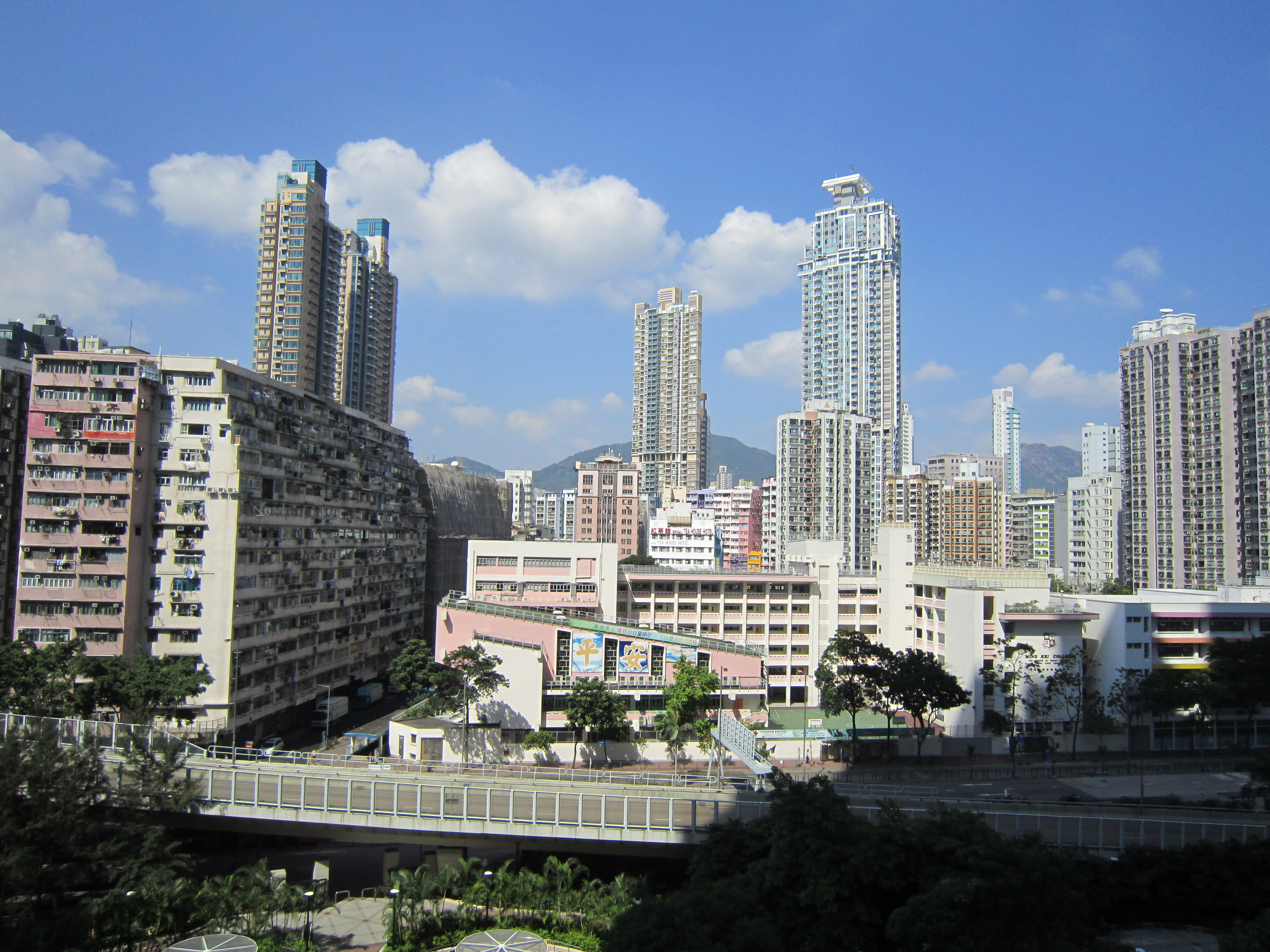 Tai Kok Tsui Old district